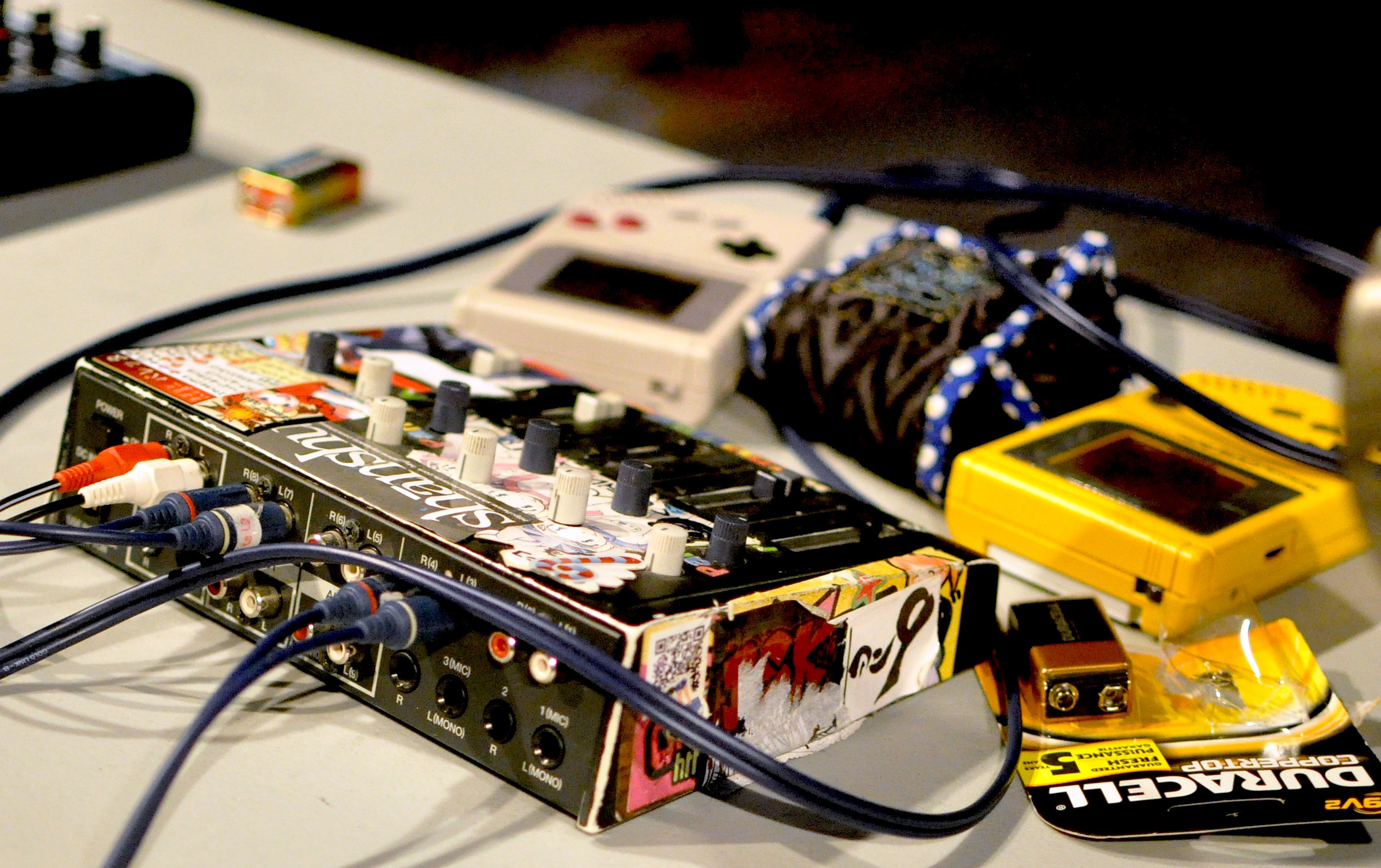 Photo of a mixer and some Game Boys setup for a chiptune musical fest. Original description at flicr: "Blip Fest 2011 @ Eyebeam, Day 2"